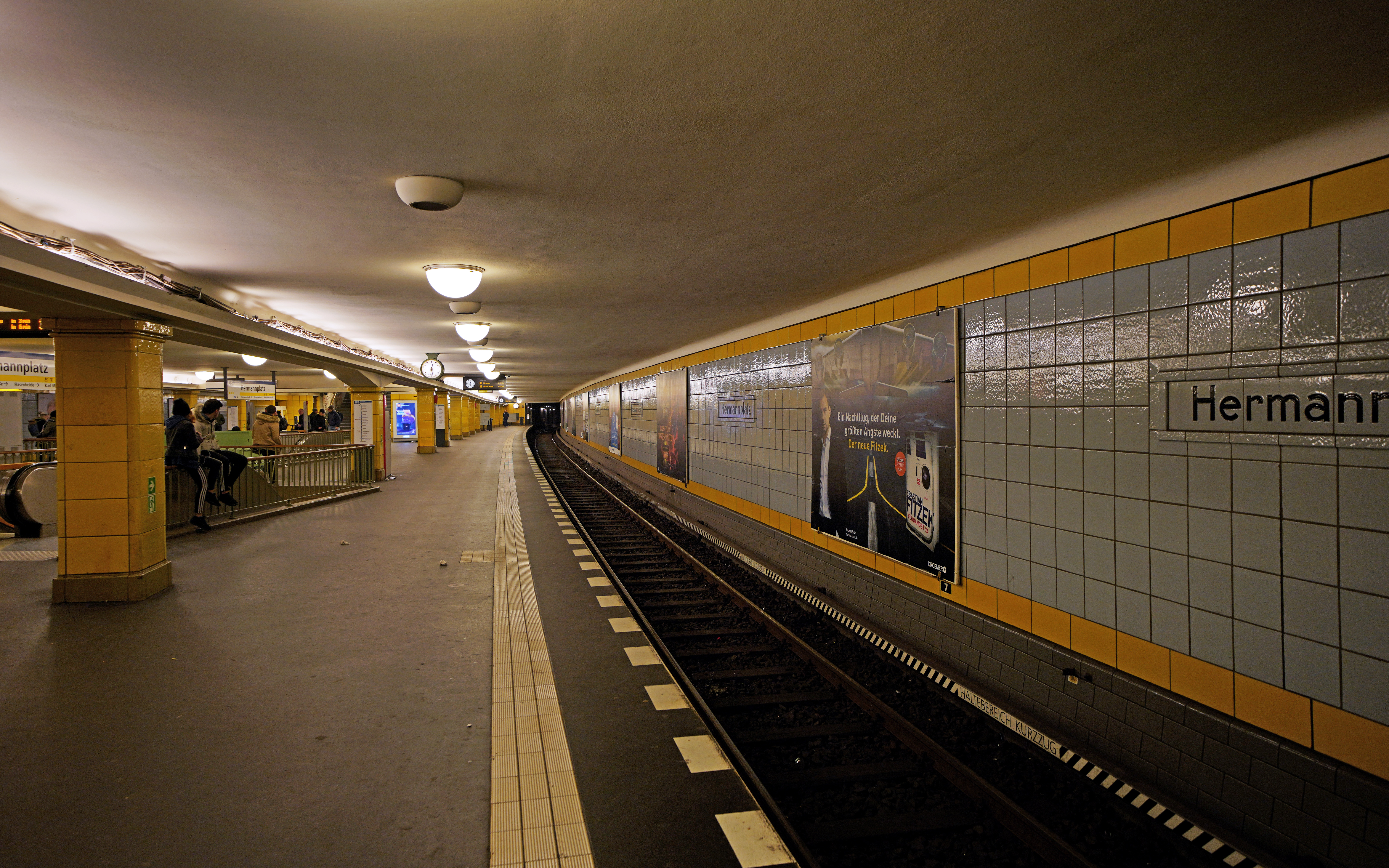 Platform of Hermannplatz (U8) U-Bahn station, Berlin (Germany)